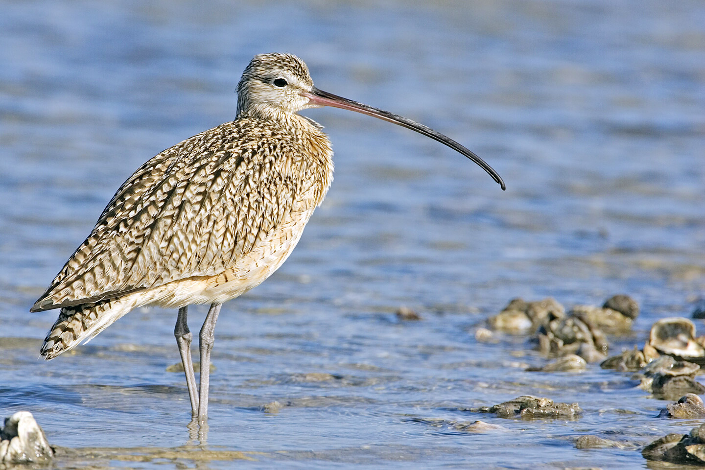 Long-Billed Curlew (Numenius americanus), Fishing Pier, Goose Island State Park, Texas